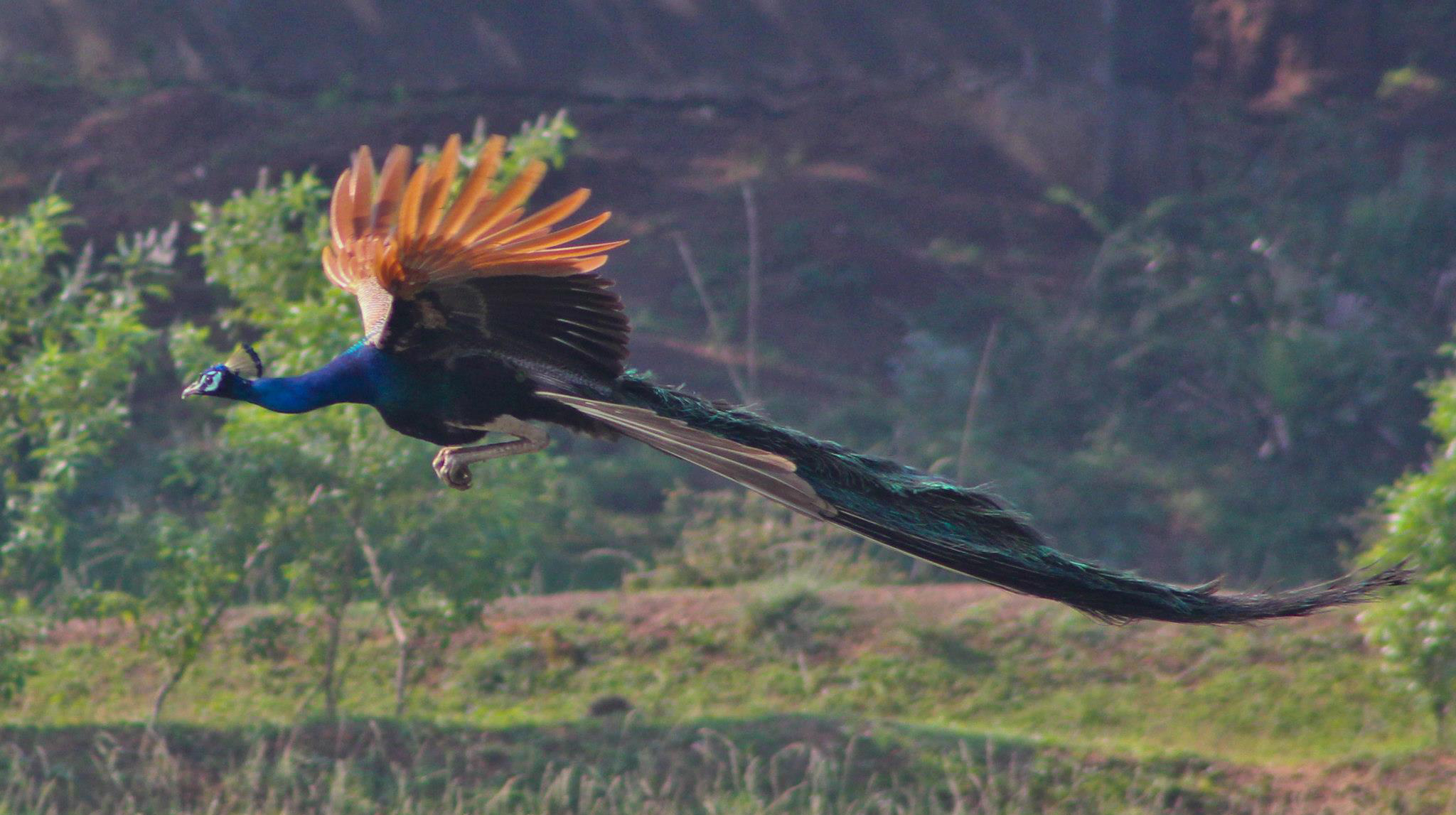 Peacock flying on rice field, at Karaikudi, Tamilnadu. Image taken on 12th November 2012, by Haribabu Pasupathy.